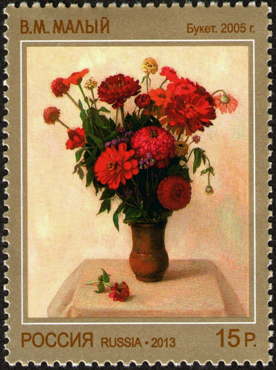 The contemporary art of Russia (the ongoing series, issue III).The Bouquet by Viktor Maly. 2005. Oil on canvas. 64×49 cm.Viktor Mikhailovich Maly (born 1946) is a Russian painter, a Meritorious Artist of the Russian Federation, a Professor of the Surikov State Academic Institute of Fine Arts in Moscow.The stamp of Russia, 15.00 Rubles, 25 October 2013, PTC Marka Catalogue No 1741, Michel No 1973. Coated paper, varnish coating, bronze paste. Offset printing. Perforation: comb 11½×12. Size of the stamp: 37×50 mm. Print run: 300,000.